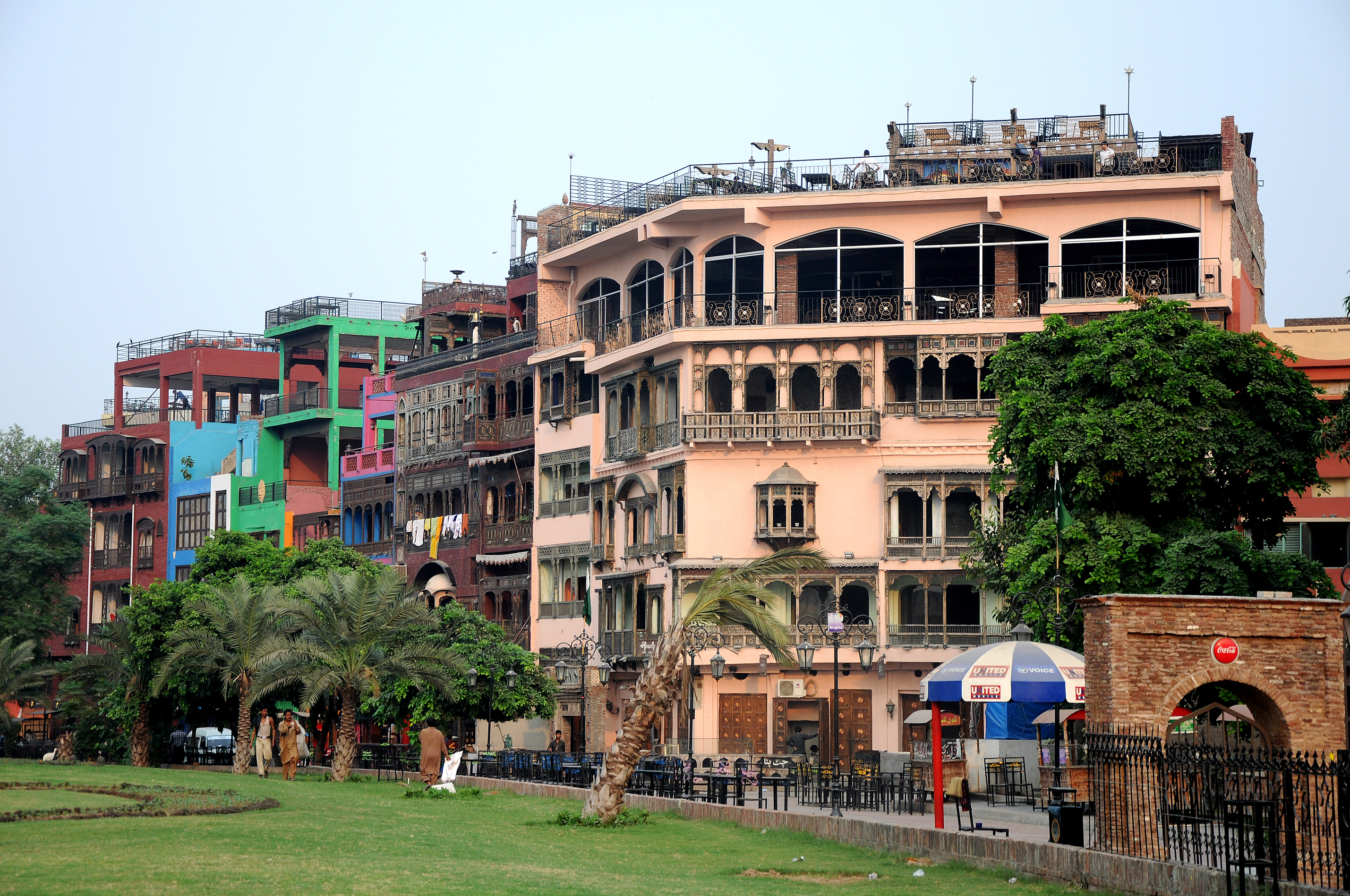 It is the one the best Area of Lahore. You can enjoy desi food in a good environment. It is called Food Street at back side of Royal Fort(Shahi Qila) Lahore. This is a photo of a monument in Pakistan identified as the PB-1